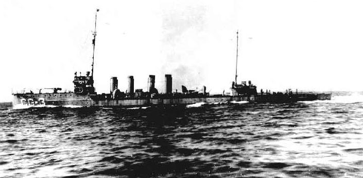 USCG Cummings (CG-3) on Coast Guard service during the Prohibition Era.